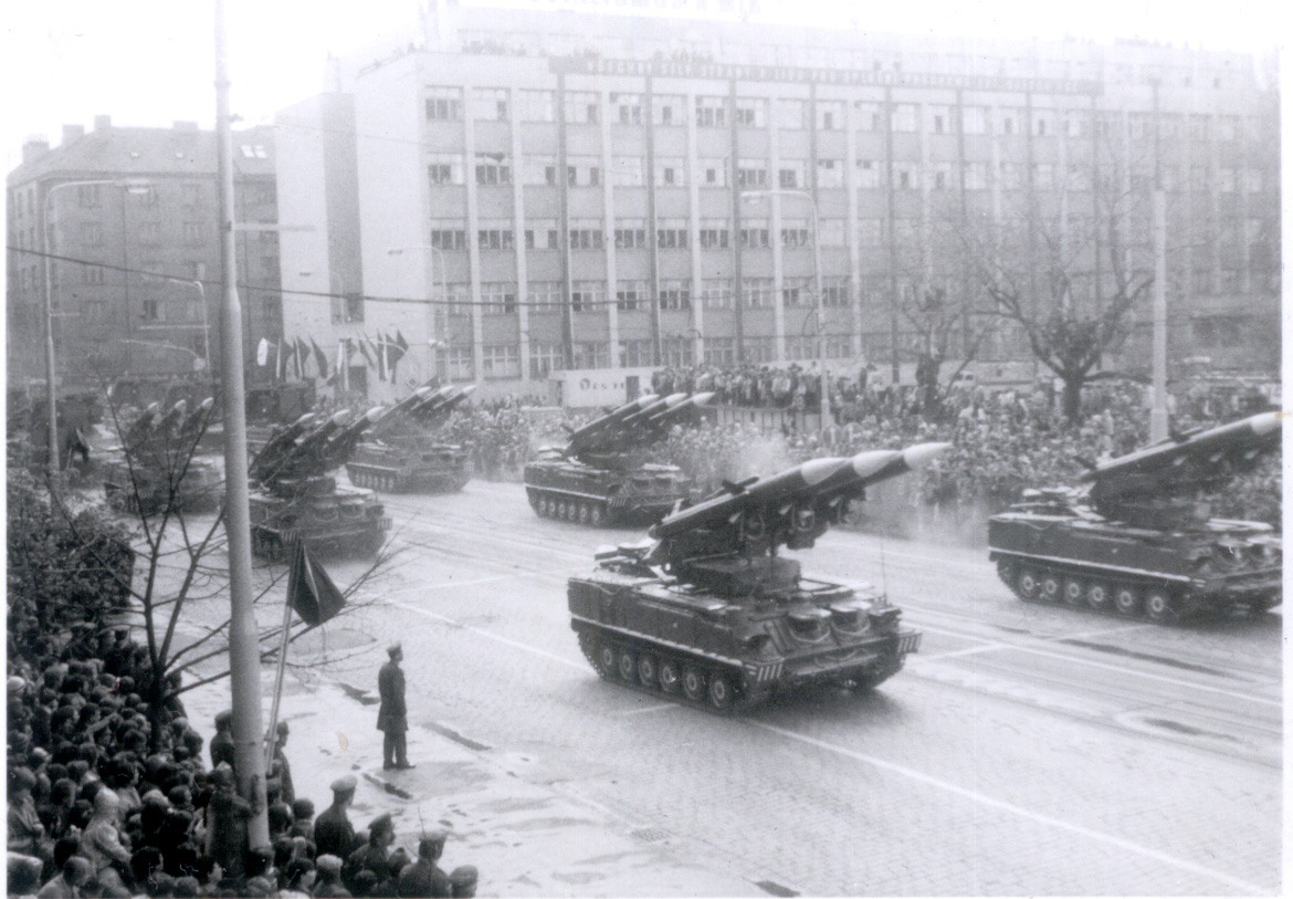 Czechoslovak military parade in Prague, 9th of May, 1985.